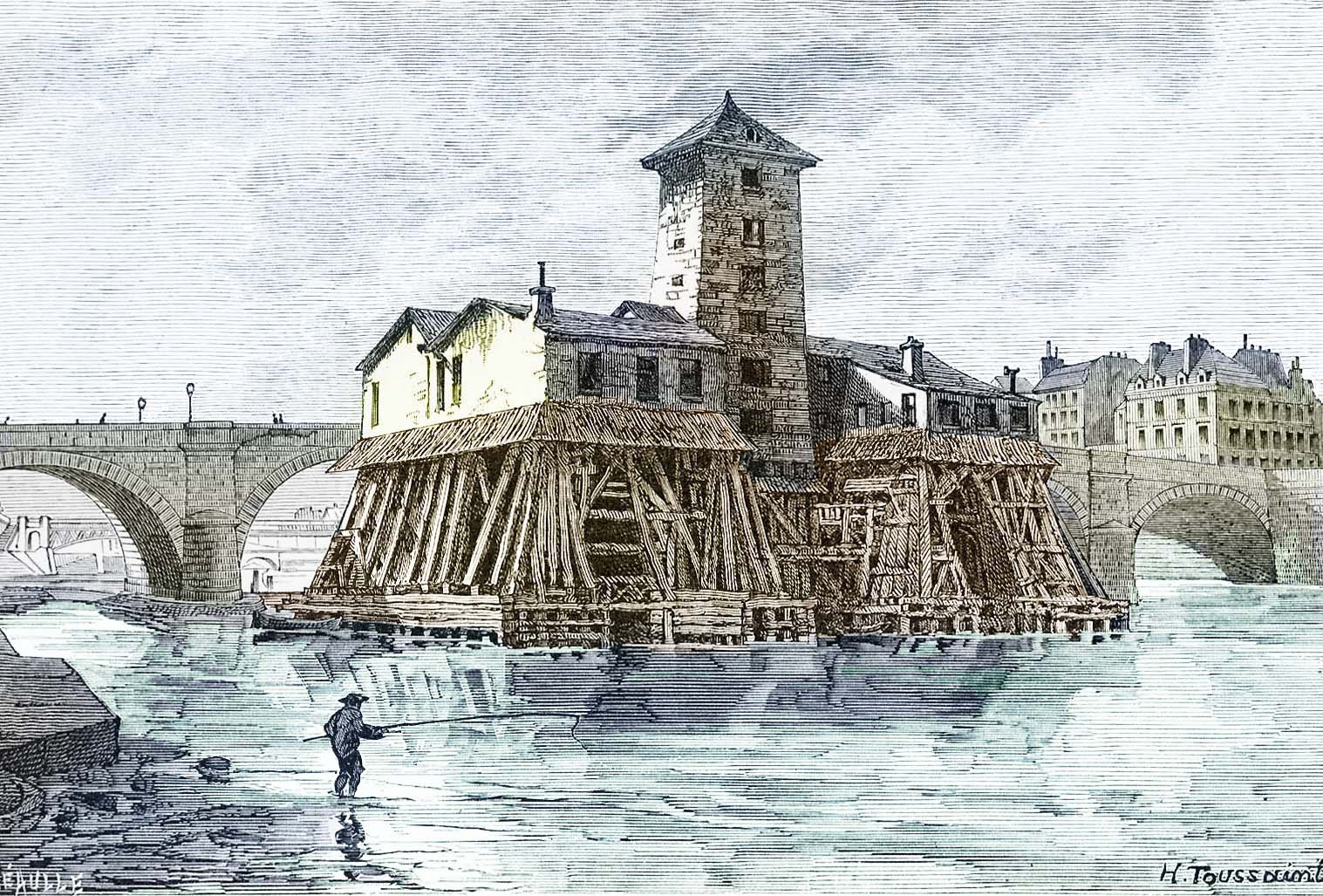 Pumps Notre Dame lithographie in 1861.